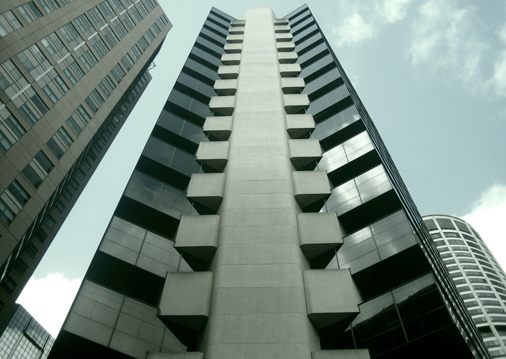 The Metcentre, Margaret Street and Carrington Street, Central Business District, Sidney, location for the offices of the fictional company MetaCortex that appears in the 1999 film The Matrix (timestamp 00:10:20).